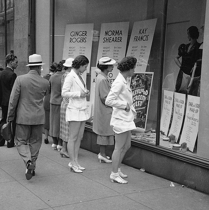 Window shopping at Simpsons department store. (Toronto, Canada) - detail